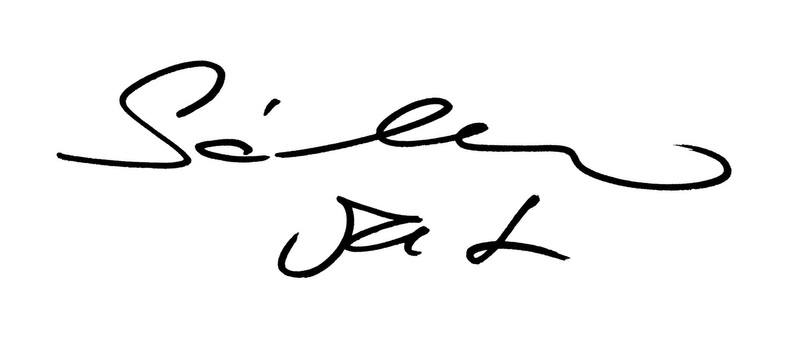 Signature of czech speed skater Martina Sáblíková